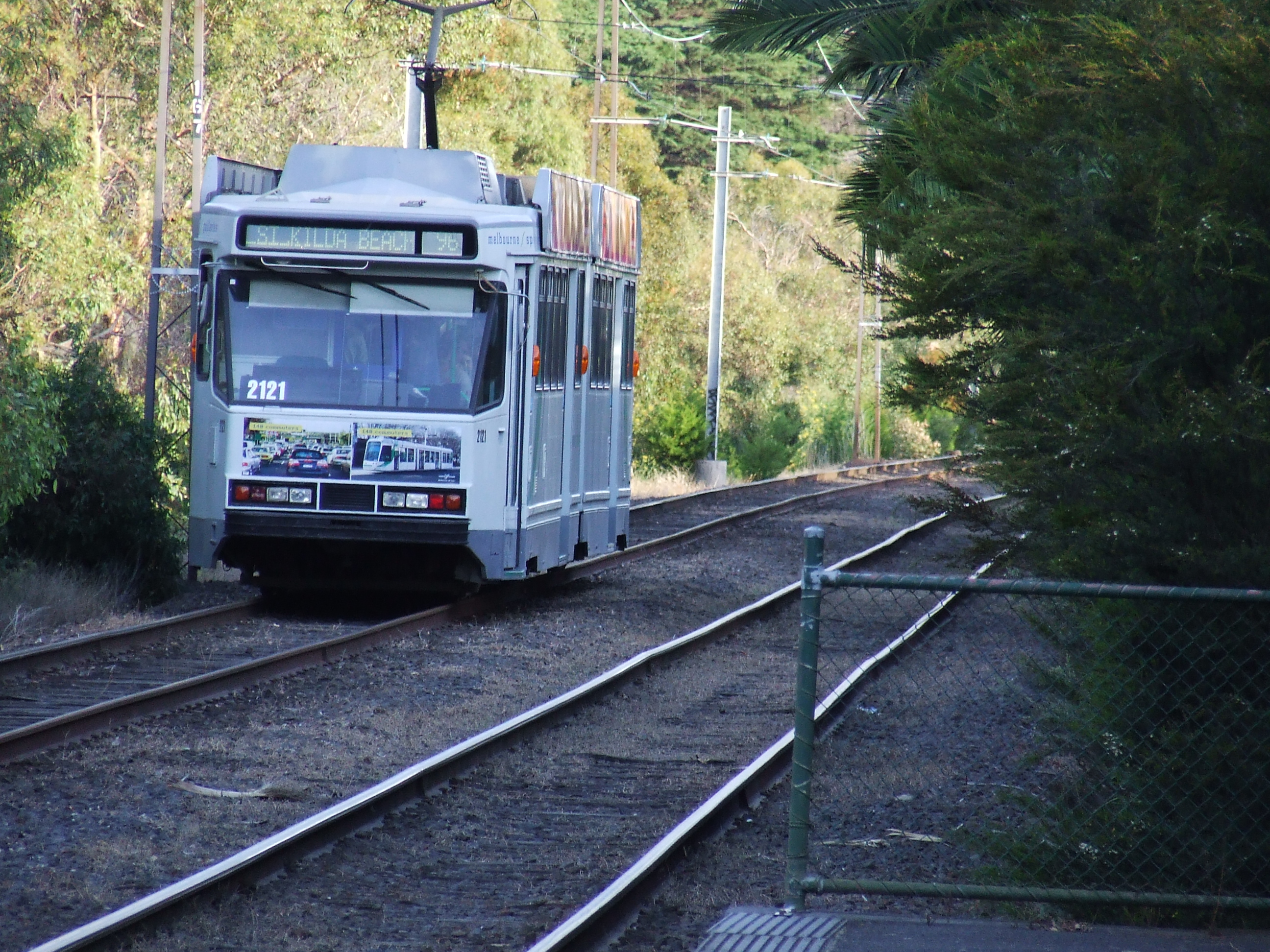 Photograph of a Route 96 tram destined for St. Kilda. Taken at the Fraser Street light rail stop in Albert Park.